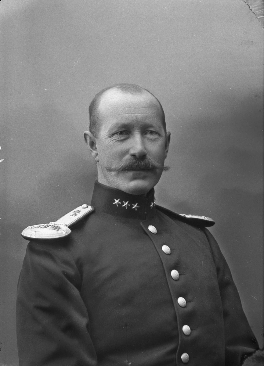 Carsten Henrik Bruun jrNorsk bokmål: Carsten Henrik Bruun jr. i uniform som kaptein ved Norske Jegerkorps.